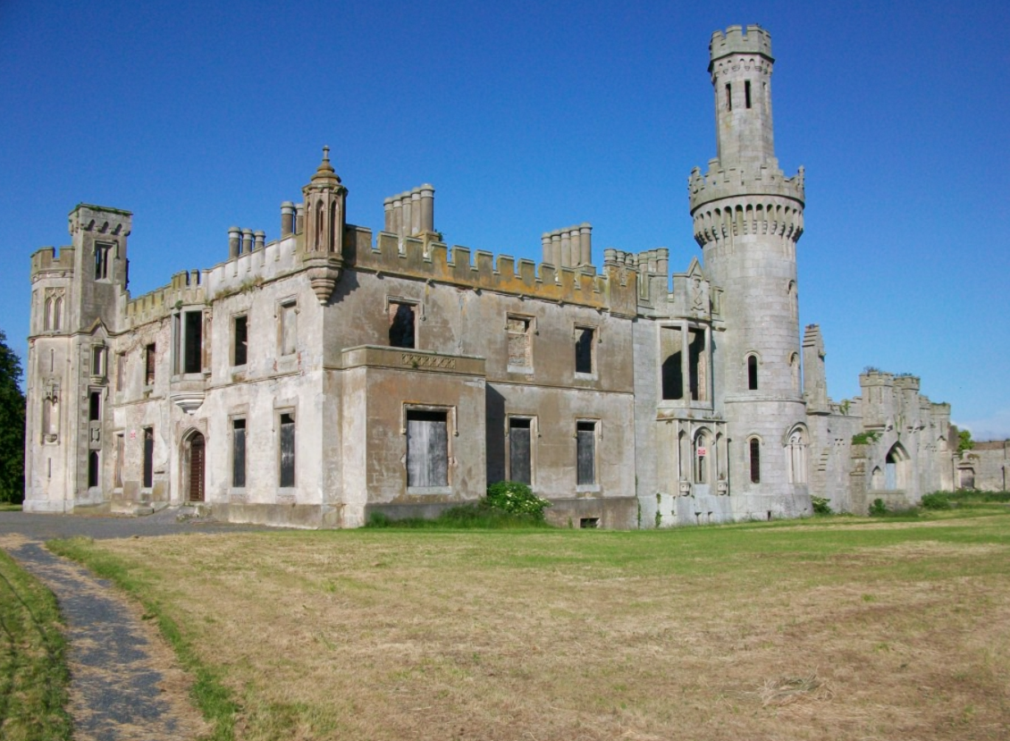 A shot of the east side of Duckett's Grove